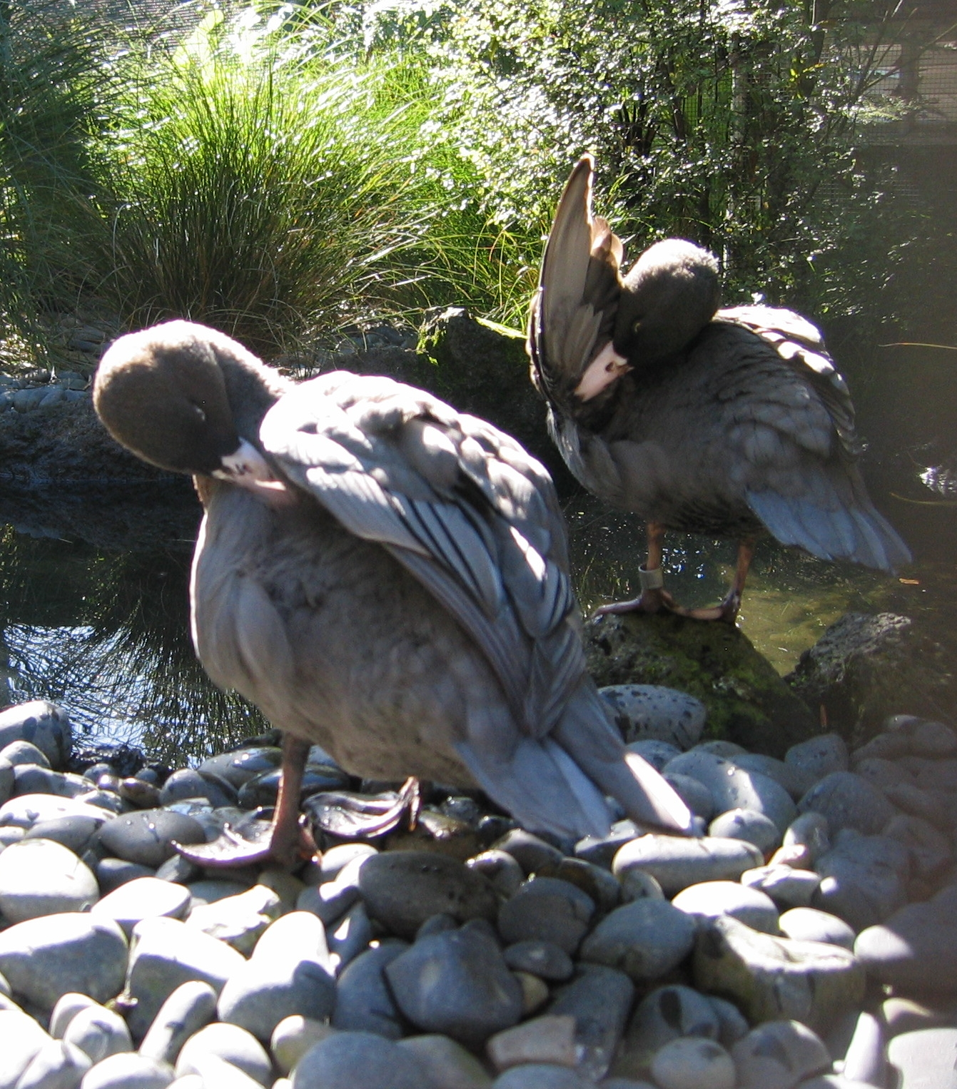 Blue Ducks Hymenolaimus malacorhynchos preening at the Auckland Zoo.